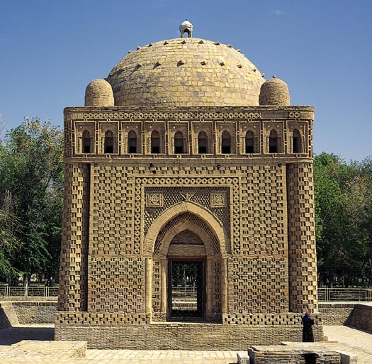 Bukhara (Uzbekistan) : Samanid mausoleum